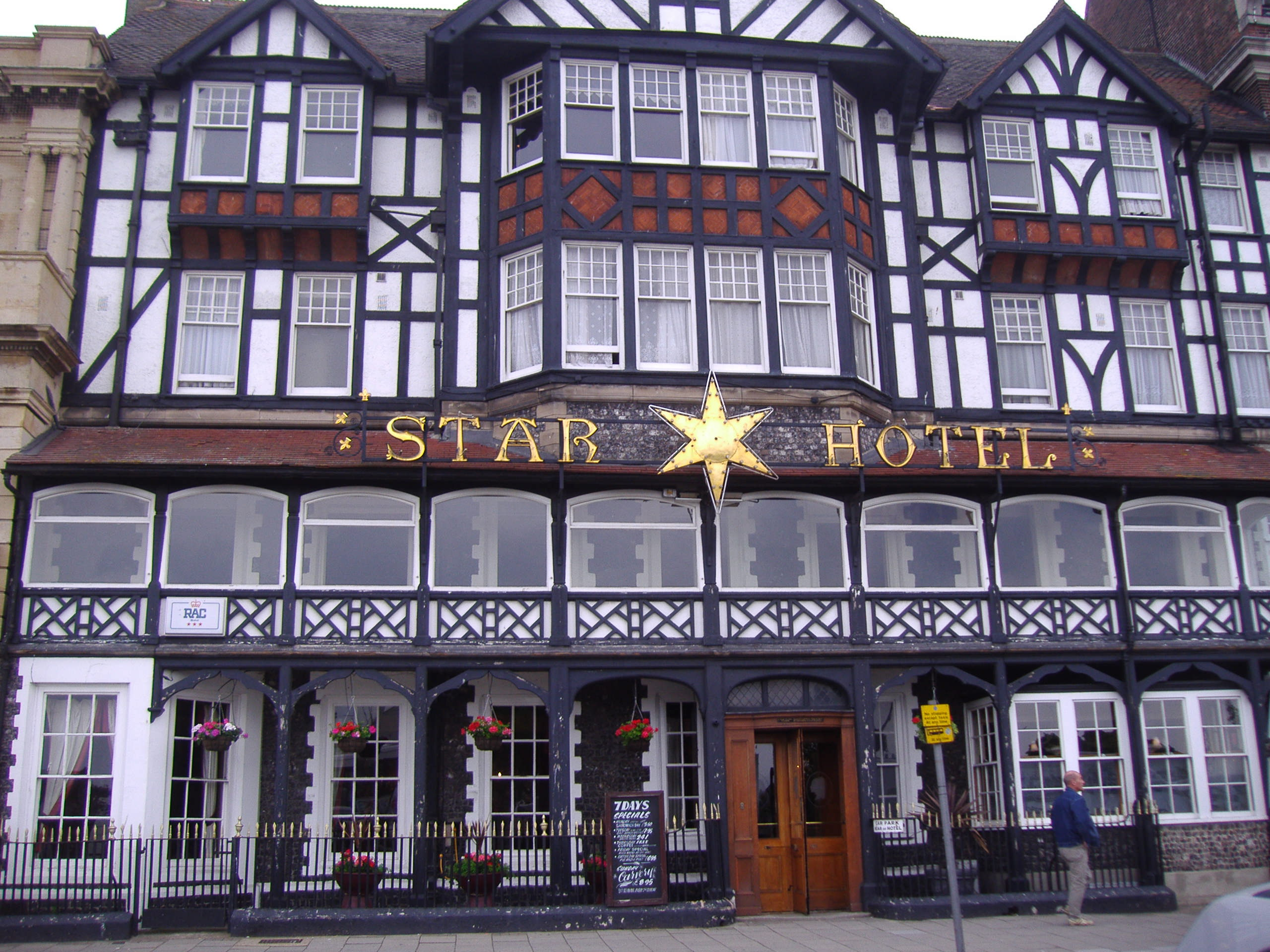 The Star Hotel and Public House, Great Yarmouth, Norfolk